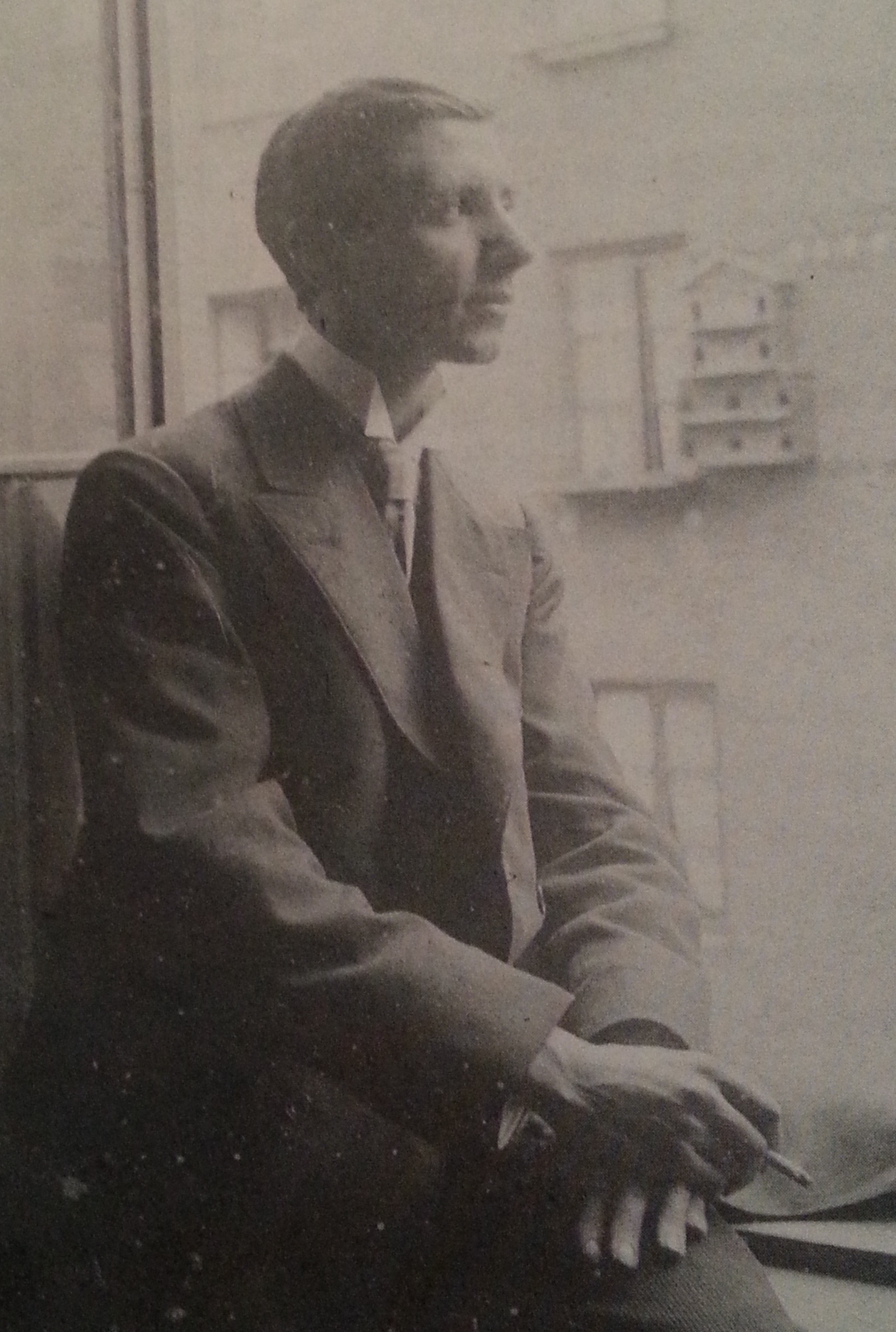 Heinrich Dieckmann